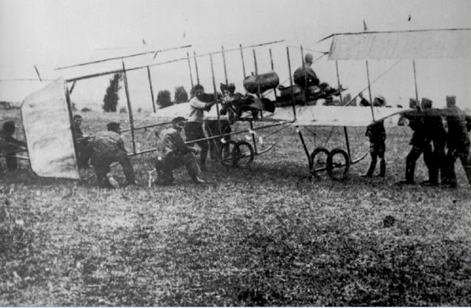 The airplane of the Greek pioneer aviator Dimitrios Kamberos is ready to take off (probably near Preveza)